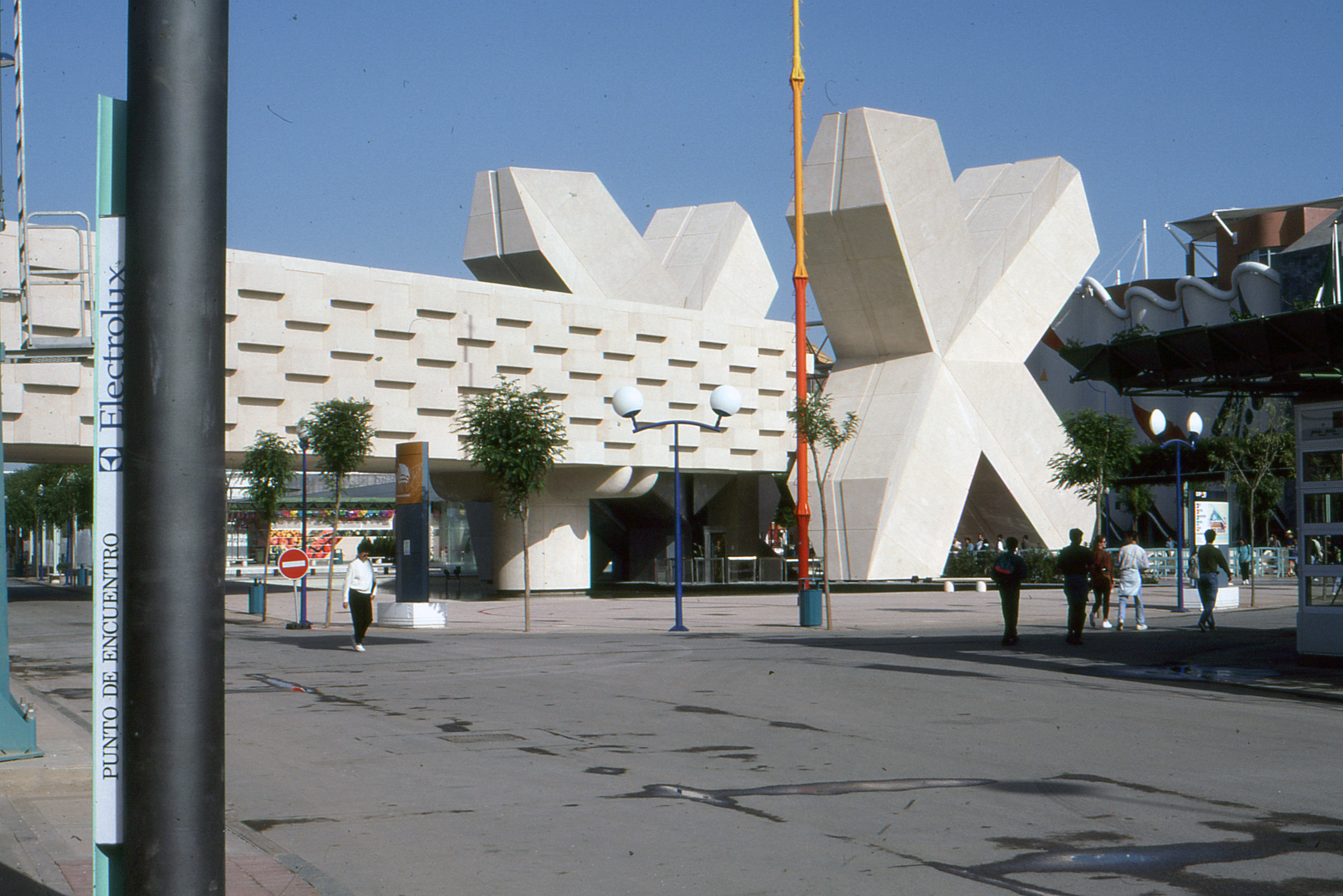 Pavilion of Mexico. Olympus OM10 + Kadachrome 100 ASA